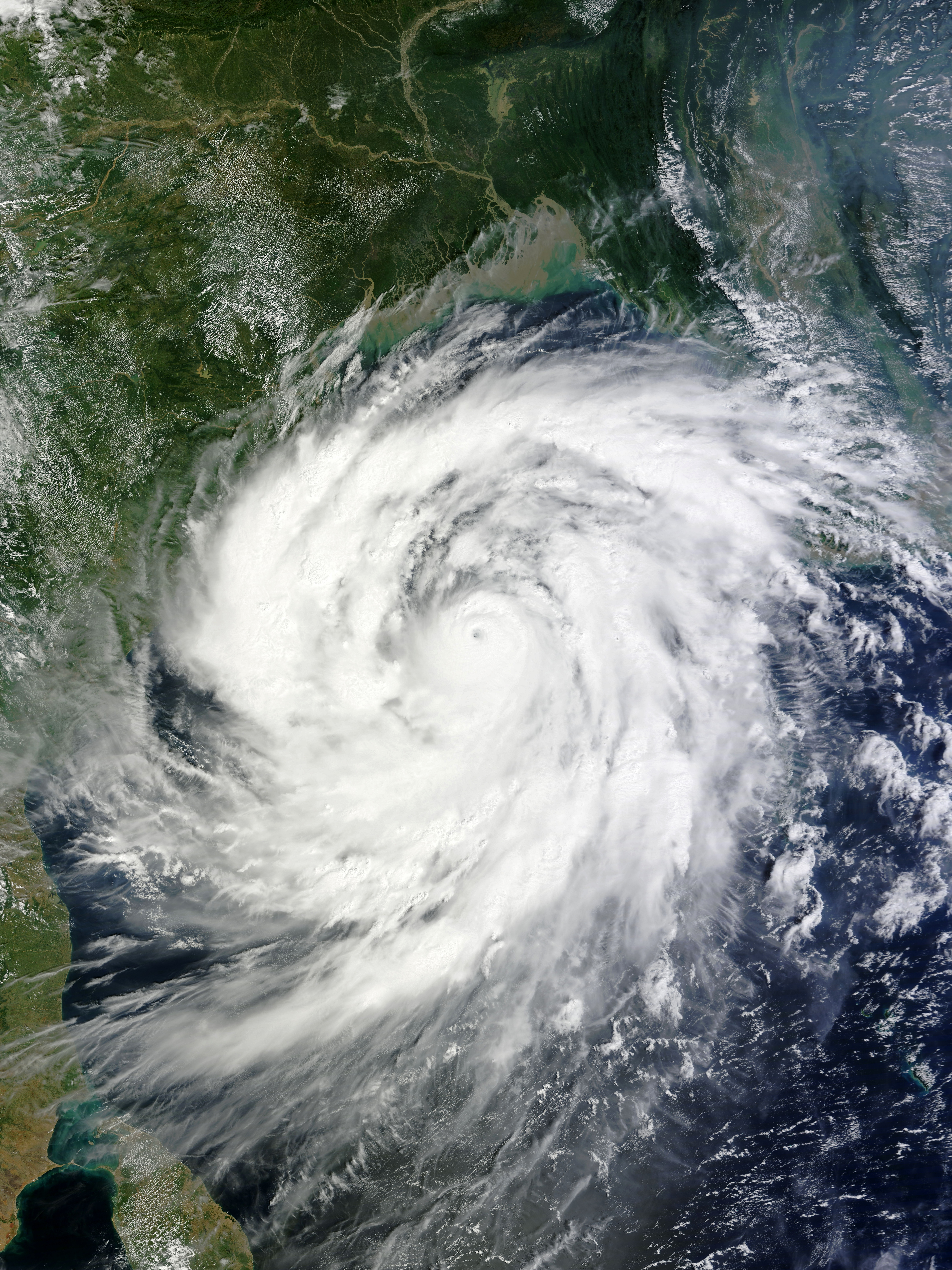 Extremely Severe Cyclonic Storm Phailin at peak intensity over the Bay of Bengal on 11 October 2013.